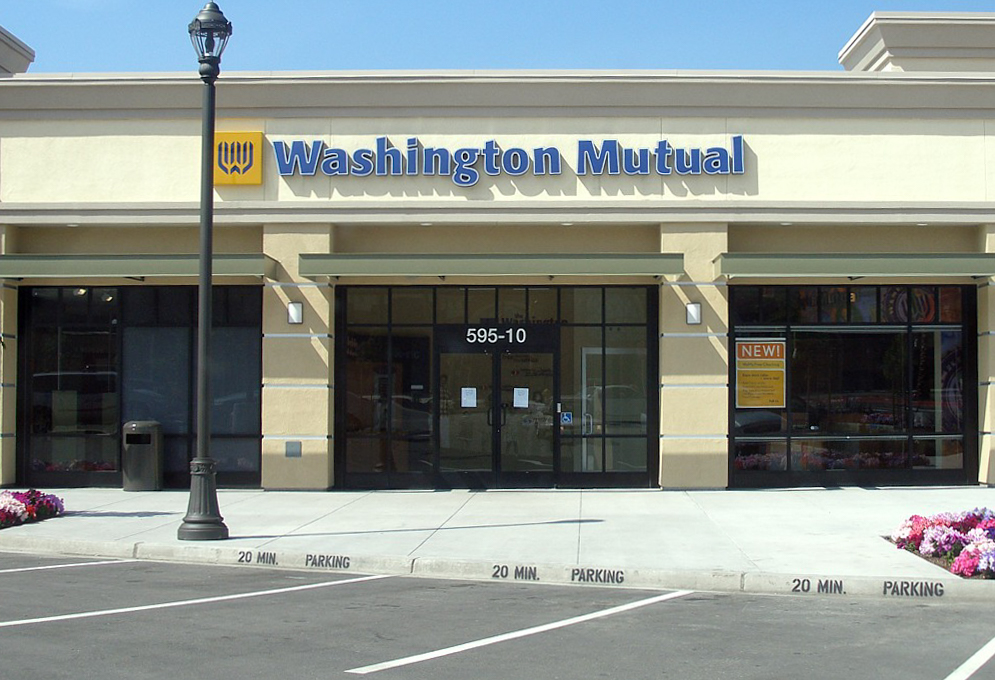 A Washington Mutual branch office in San Jose, at San Jose MarketCenter.